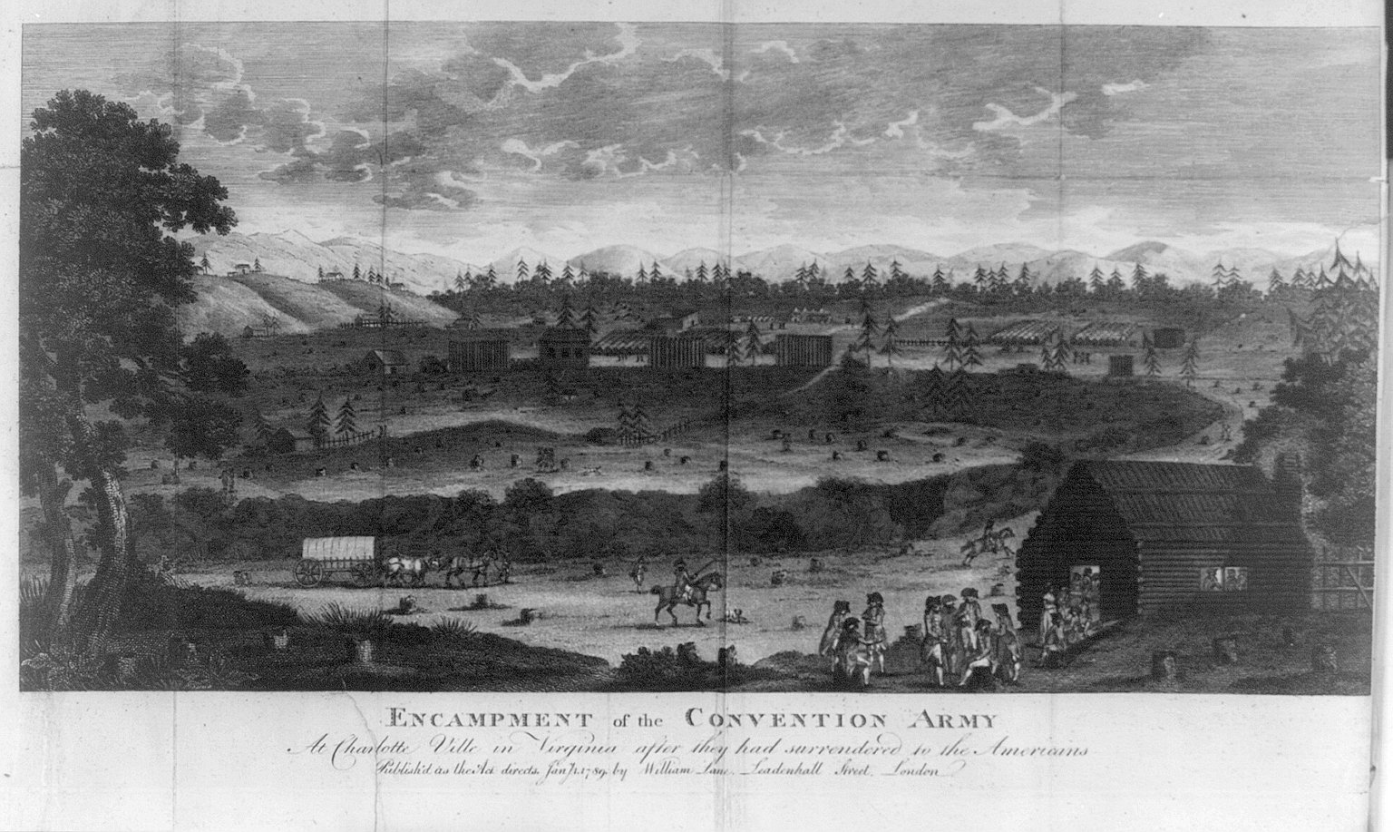 Encampment of the convention army at Charlotte Ville in Virginia after they had surrendered to the Americans. Etching shows a panoramic view of the landscape in Charlottesville, Virginia, with British troops, captured at the surrender in Saratoga, engaged in subsistence farming. CREATED/PUBLISHED: London : Publish'd as the Act directs by William Lane, Leadenhall Street, 1789 Jany. 1. Illus. in: Travels through the interior parts of America : In a series of letters / Thomas Anburey. London : Printed for W. Lane, 1789, v. 2, opp. p. 443. REPOSITORY: Library of Congress Rare Book and Special Collections Division Washington, D.C. 20540 USA.